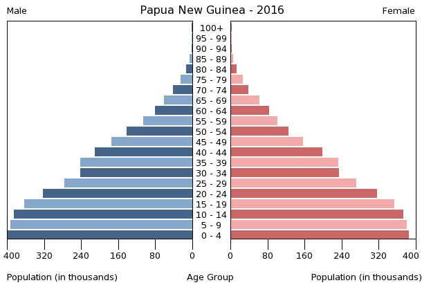 The population pyramid of Papua New Guinea illustrates the age and sex structure of population and may provide insights about political and social stability, as well as economic development. The population is distributed along the horizontal axis, with males shown on the left and females on the right. The male and female populations are broken down into 5-year age groups represented as horizontal bars along the vertical axis, with the youngest age groups at the bottom and the oldest at the top. The shape of the population pyramid gradually evolves over time based on fertility, mortality, and international migration trends.